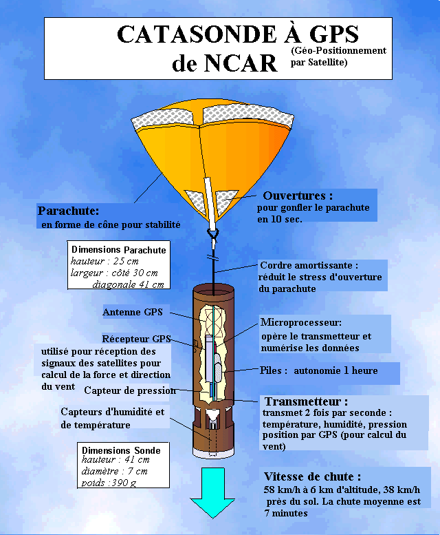 A dropsonde, a radiosonde dropped from airplane to study the temperature, humidity, pressure and wind profile of the atmosphere